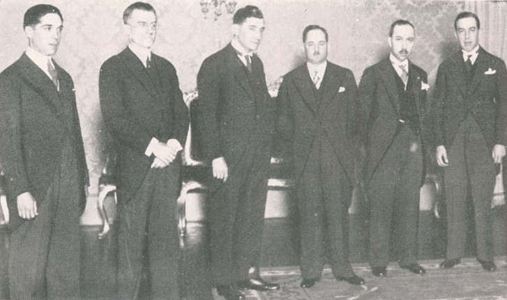 The government ministers of the new Salazar-led cabinet are sworn-in before President Carmona, on 5 July 1932.